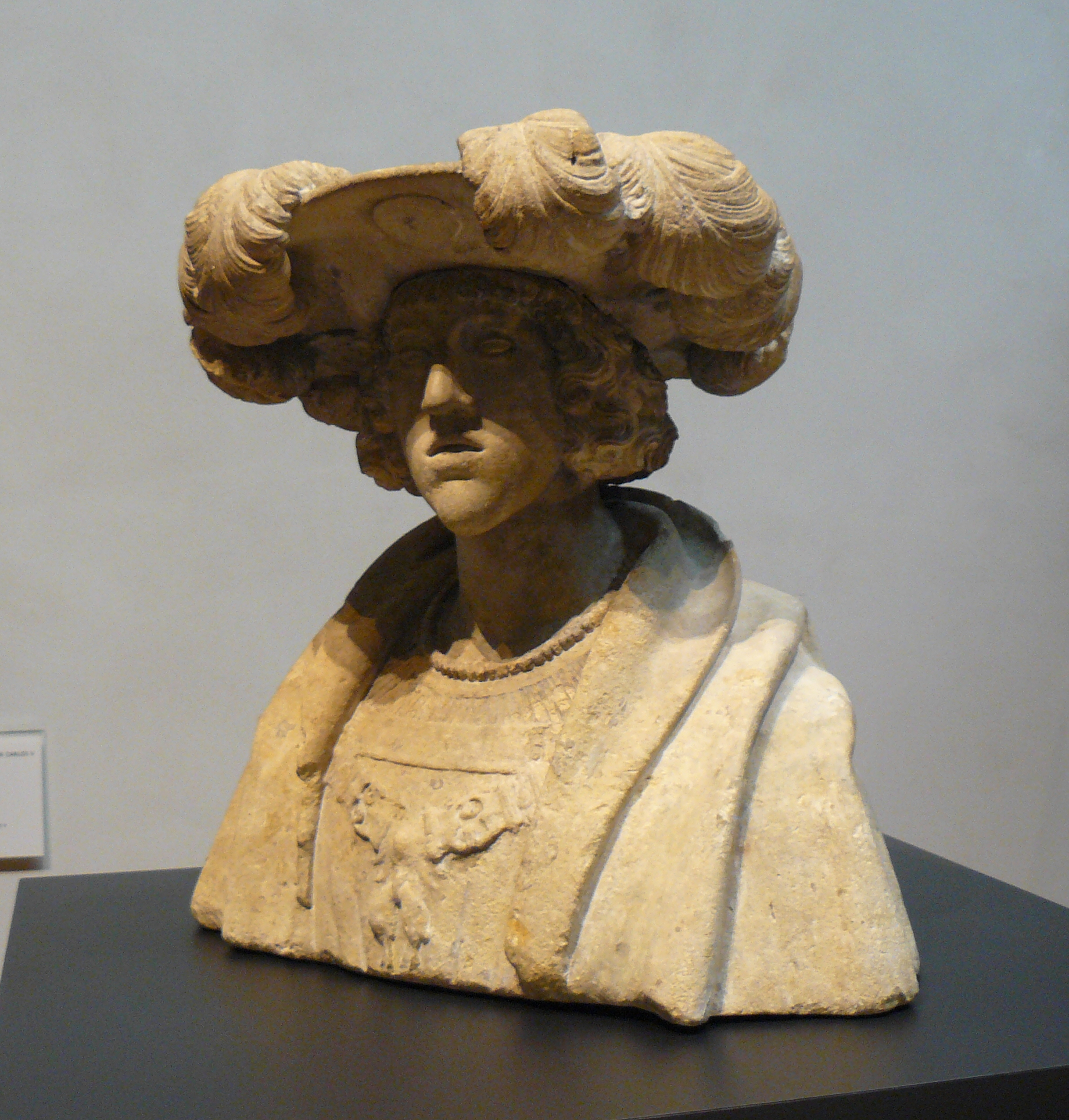 Bust of emperor Charles, exhibited in San Gregorio College, one of the four buildings of the National Sculpture Museum of Spain, located in the city of Valladolid.